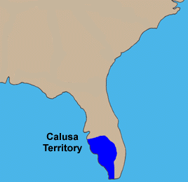 Map of Calusa territory in Florida.